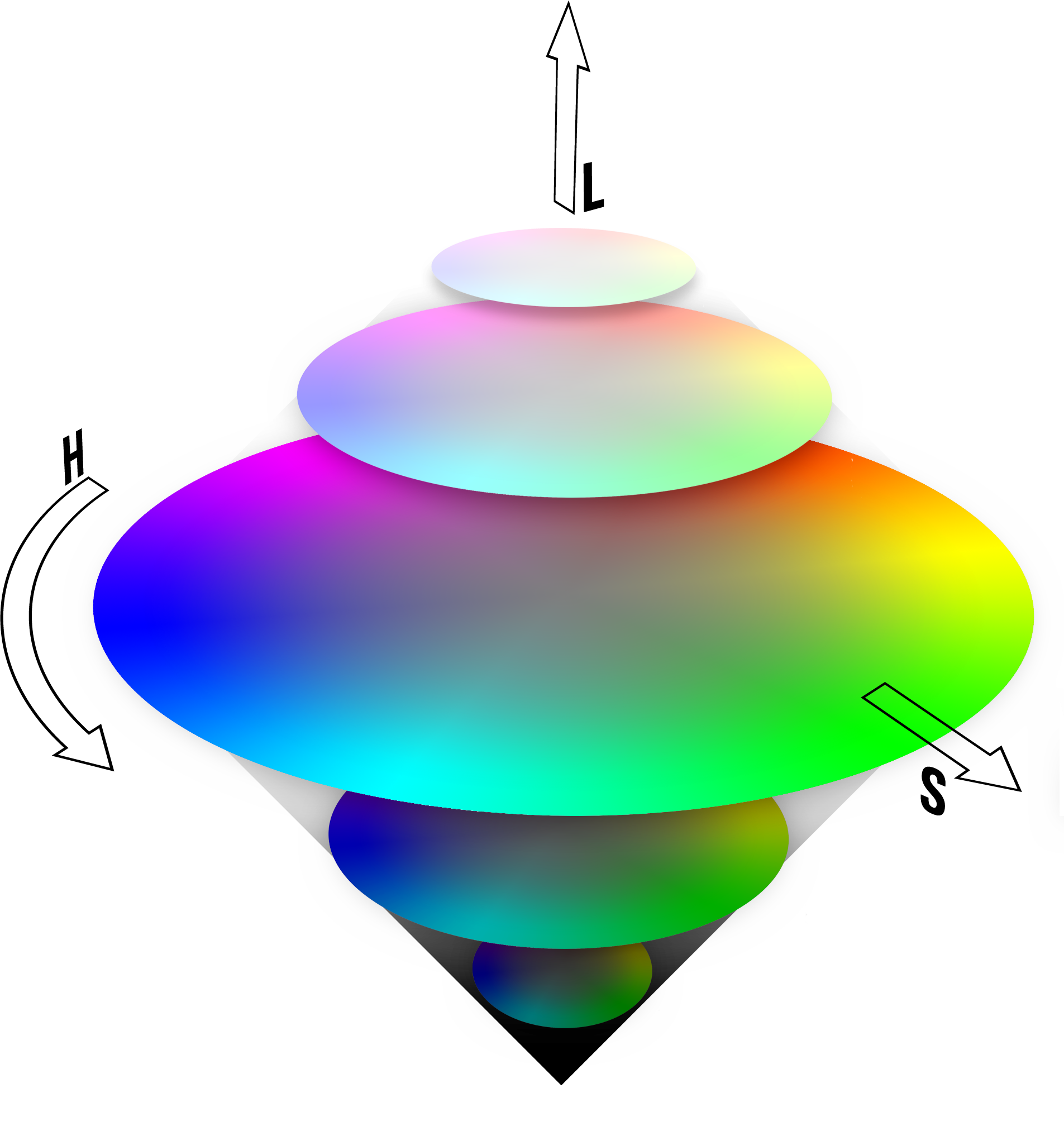 Color cones representing HSL color space.